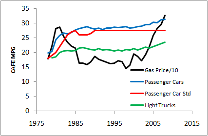 Car and Truck CAFE vs Gas Prices in 2008 Dollars based on US Government data from NHTSA, EIA, and US Bureau of Labor Statistics CPI